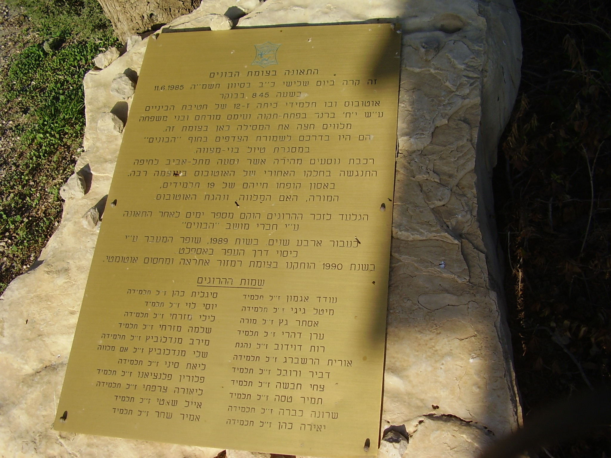 memorial site to \"habonim\" bus accident